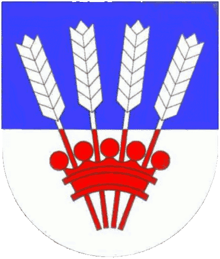 Coat of arms of the former Amt (county) Wankendorf in Schleswig-Holstein, Germany.